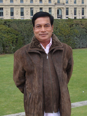 picture of Dr. K.C. Malick